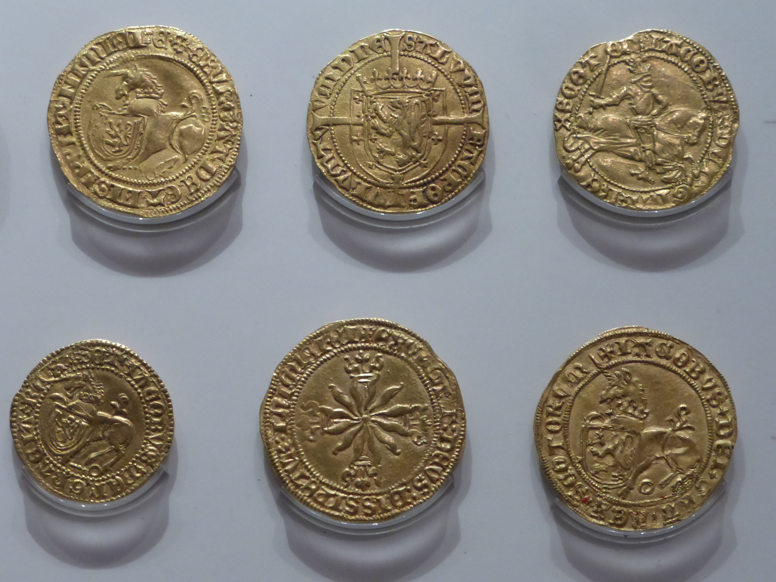 Scottish coins, including "unicorns" from the reigns of James III (top left) and James IV (bottom right), exhibited in the National Museum of Scotland, Edinburgh